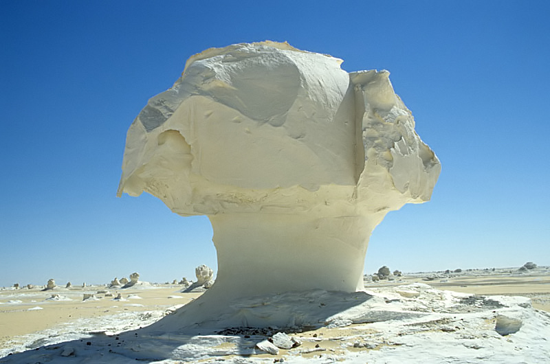 Limestone rock formed like a mushroom, White Desert, Egypt